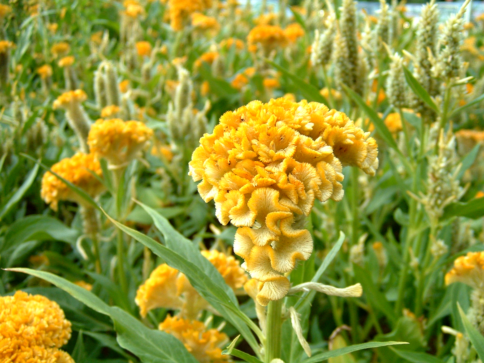 By Mohd Hafiz Noor Shams. User:__earth. Description at my blog.